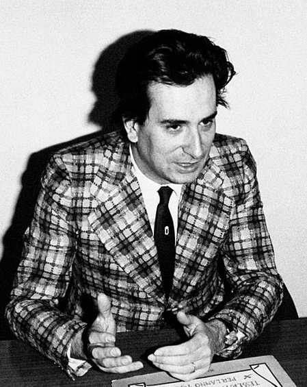 The architect, architecture critics and dean of Faculty of Architecture at the Politecnico di Milano, Paolo Portoghesi, is seated at a desk during an interview; in front of him the book titled Dieci posters del Partito Socialista Italiano 1905-1925, with introduction by Bettino Craxi; Portoghesi was suspended by Ministry Misasi as he had allowed teaching in the university during the evenings. Milan (Italy), 1970.